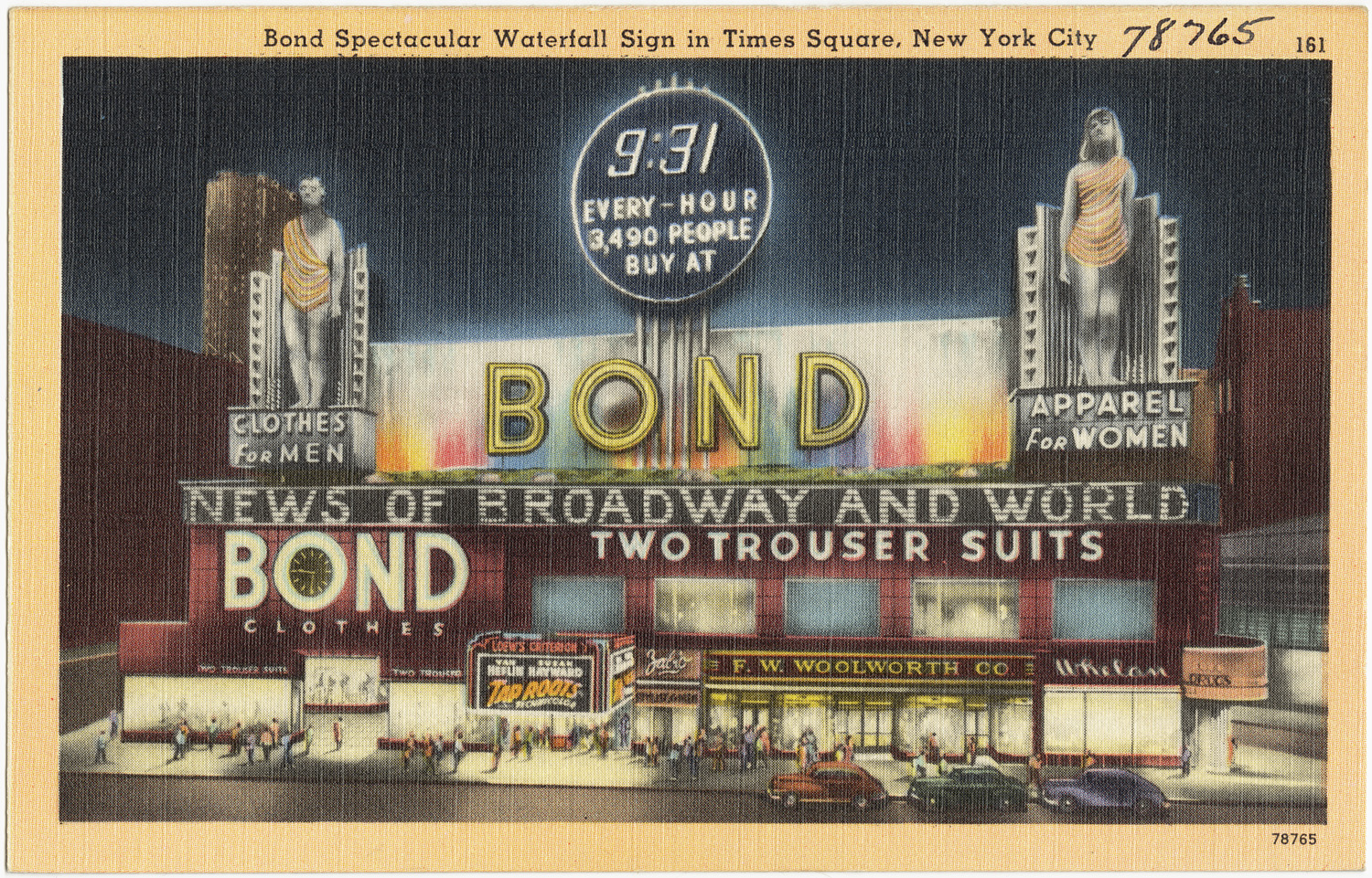 File name: 06_10_005670 Title: Bond spectacular waterfall sign in Times Square, New York City Created/Published: Acacia Card Company, 258 Broadway, New York 7, N.Y. Date issued: 1930 - 1945 (approximate) Physical description: 1 print (postcard) : linen texture, color ; 3 1/2 x 5 1/2 in. Genre: Postcards Subjects: Commercial facilities Notes: Title from item. Collection: The Tichnor Brothers Collection Location: Boston Public Library, Print Department Rights: No known restrictions